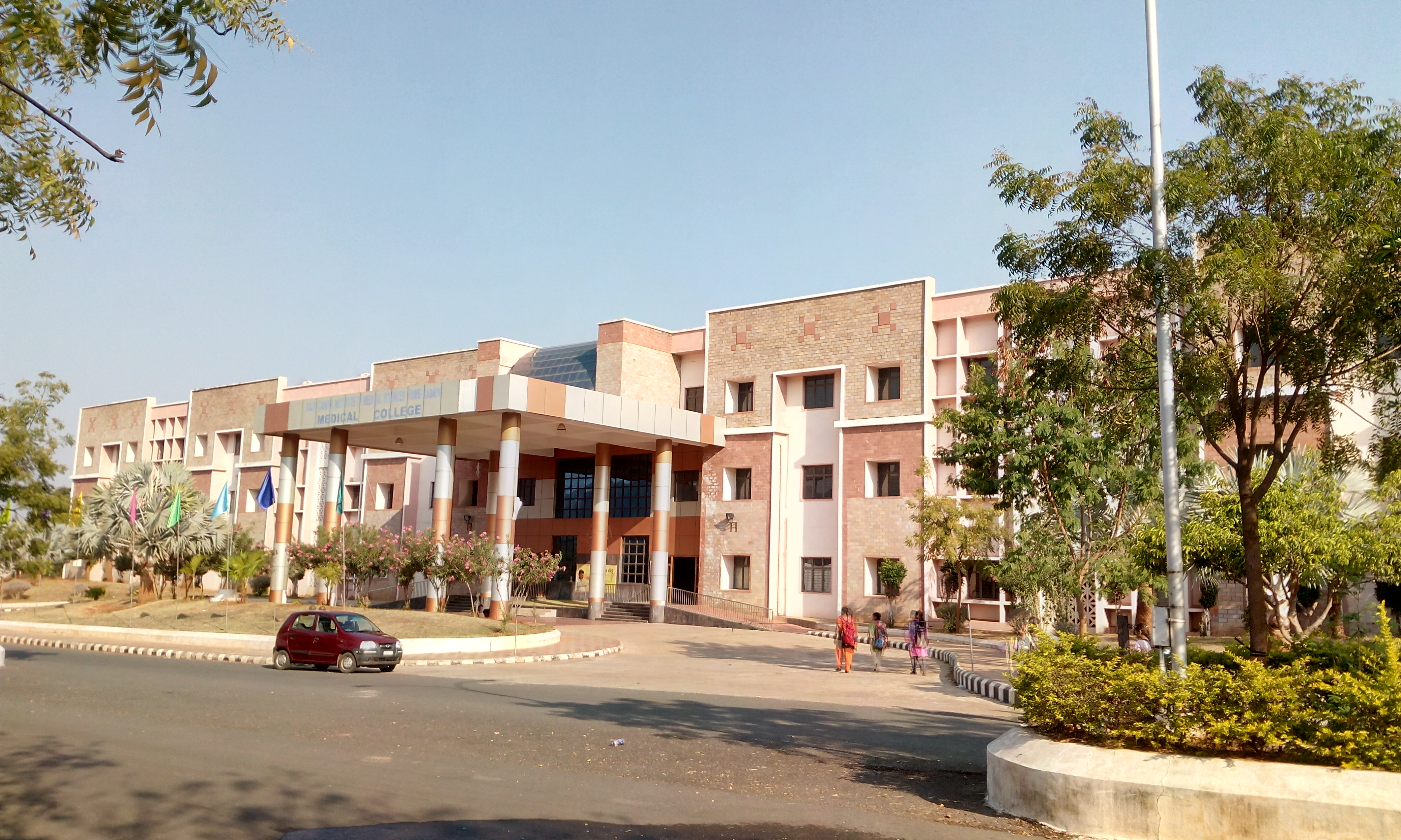 RIMS Medical college block